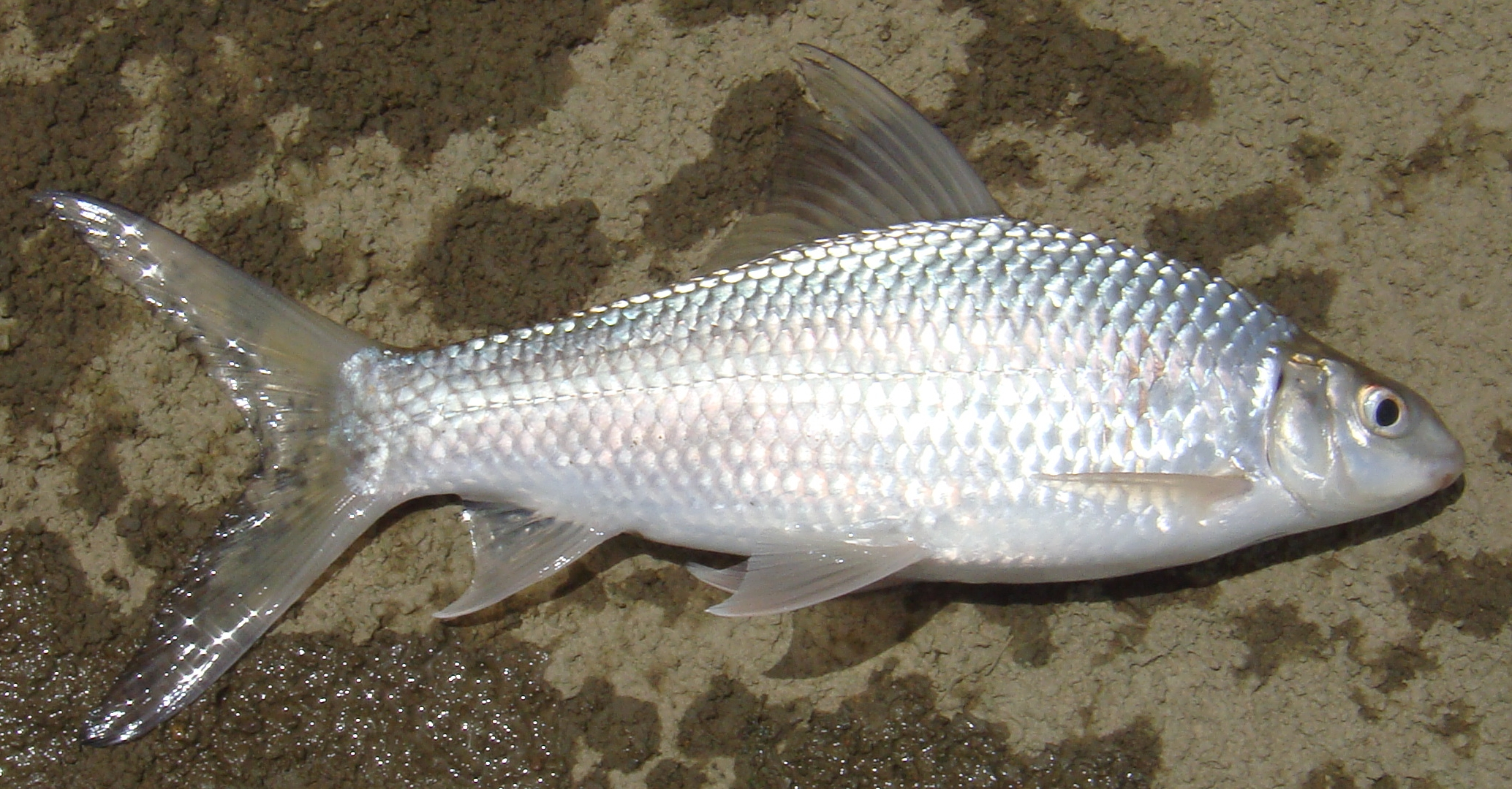 Cirrhinus cirrhosus from the Nandu River, Hainan, China